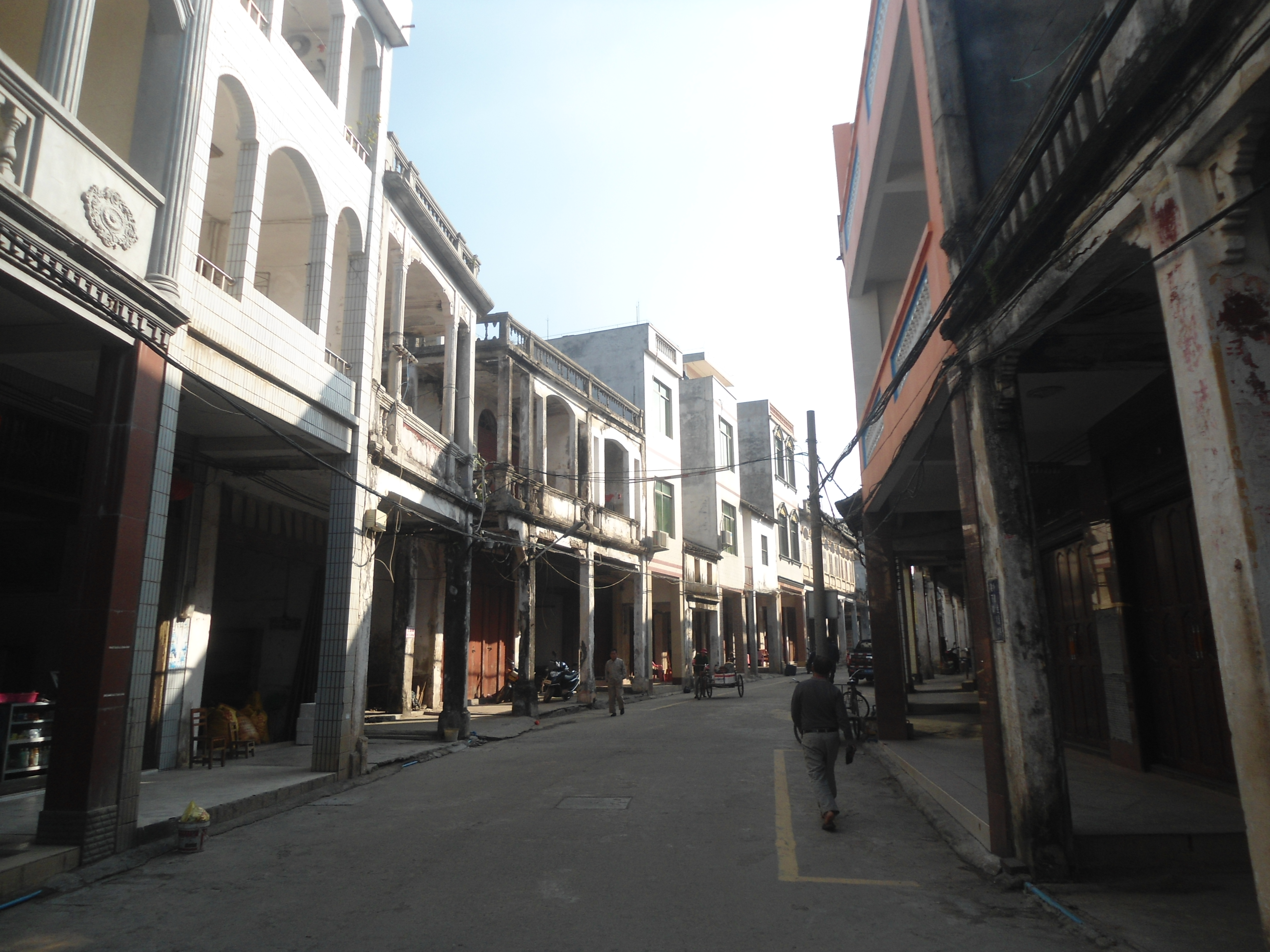 Puqian